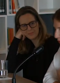 Tati Bernardi, Brazilian writer, in FOLIO - Óbidos International Literary Festival, Portugal, 2019